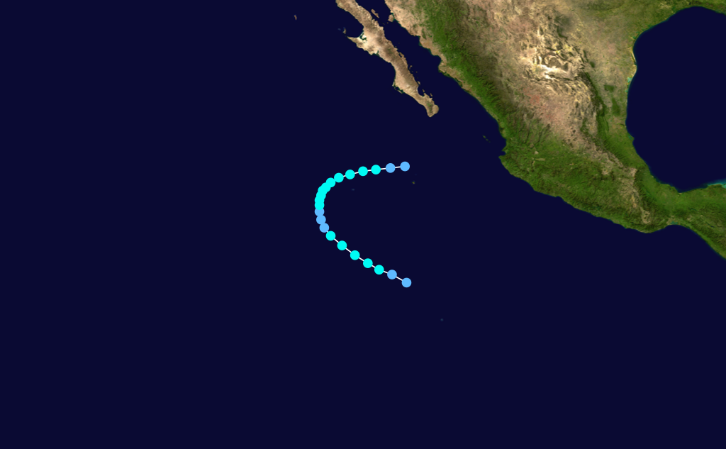 Tropical Storm Zeke (1992) track. Uses the color scheme from the Saffir-Simpson Hurricane Scale.